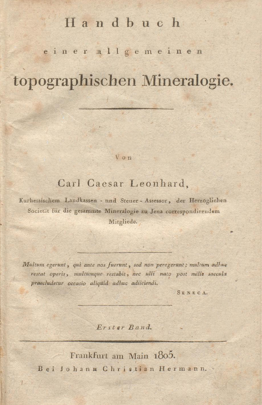 Cover of volume 1 of Handbuch einer allgemeinen topographischen Mineralogie, from C.C. Leonhard, published in 1805